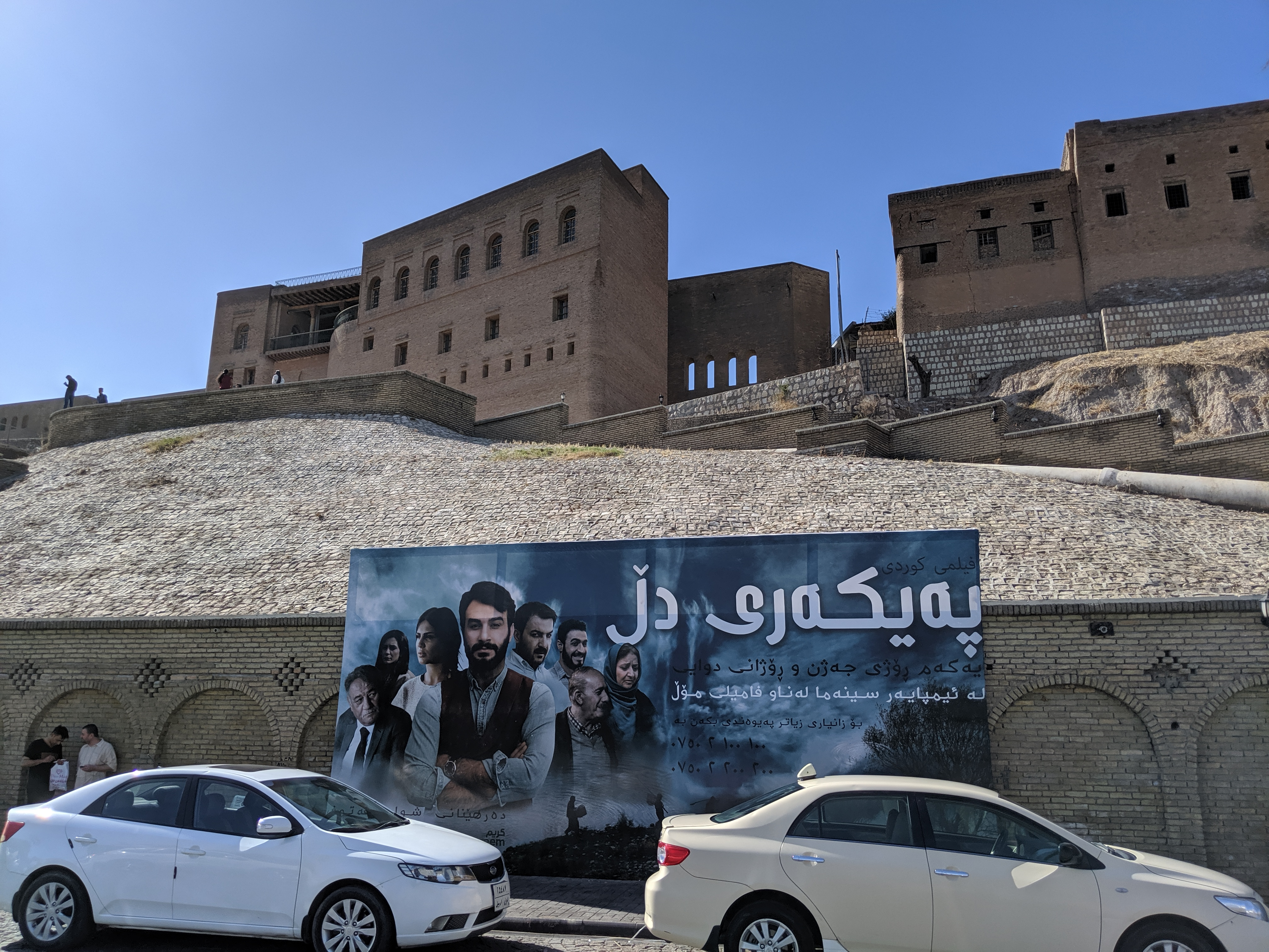 Peykeri Dill poster near Erbil Citadel